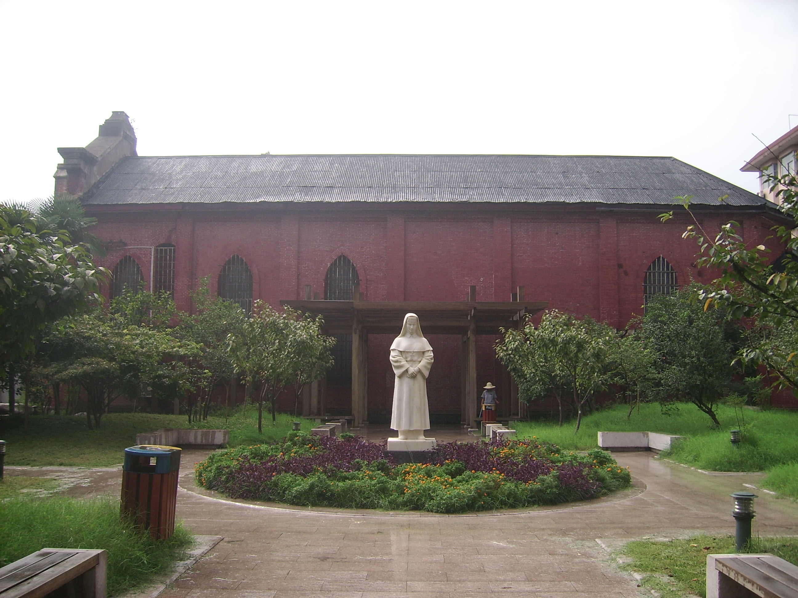 A statue of Sr. Hacard at what was once the chapel for the Sisters of Charity Hospital in Hangzhou, China.